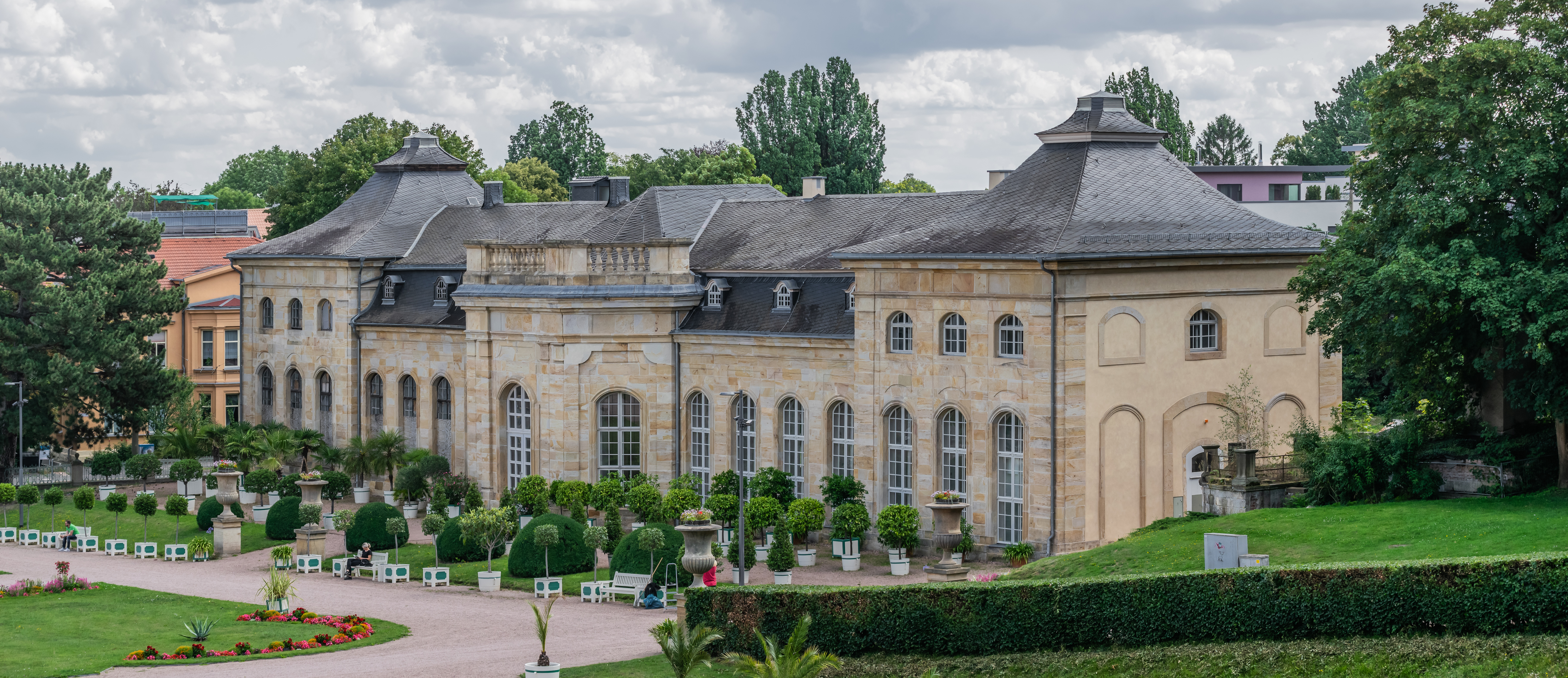 Orangery in Gotha, Thuringia, Germany